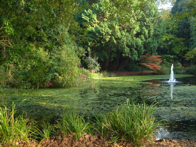 Reed Pond, University of Exeter Small fountain in the pond in the grounds of Reed Hall.